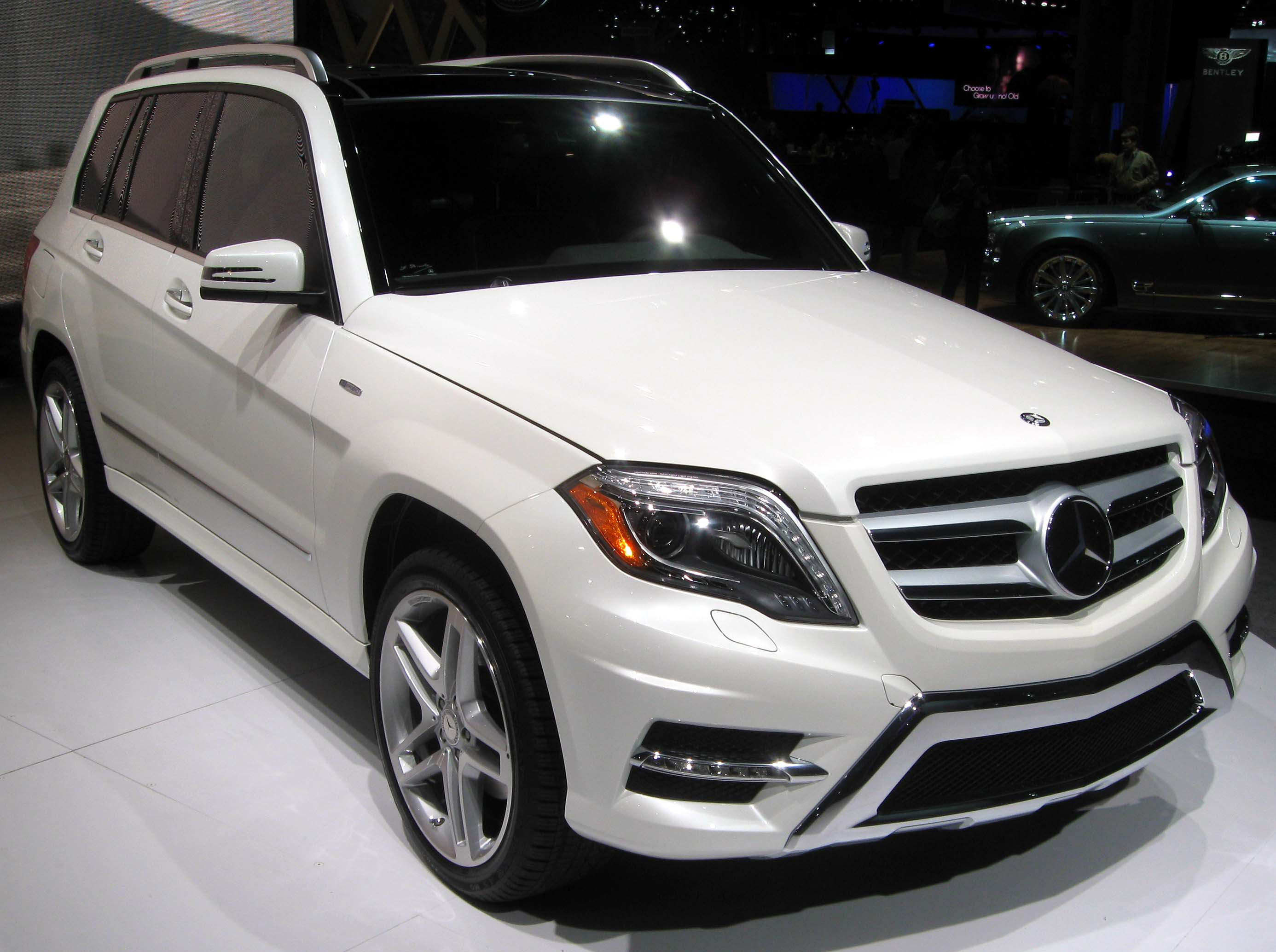 2013 Mercedes-Benz GLK photographed at the 2012 New York International Auto Show.